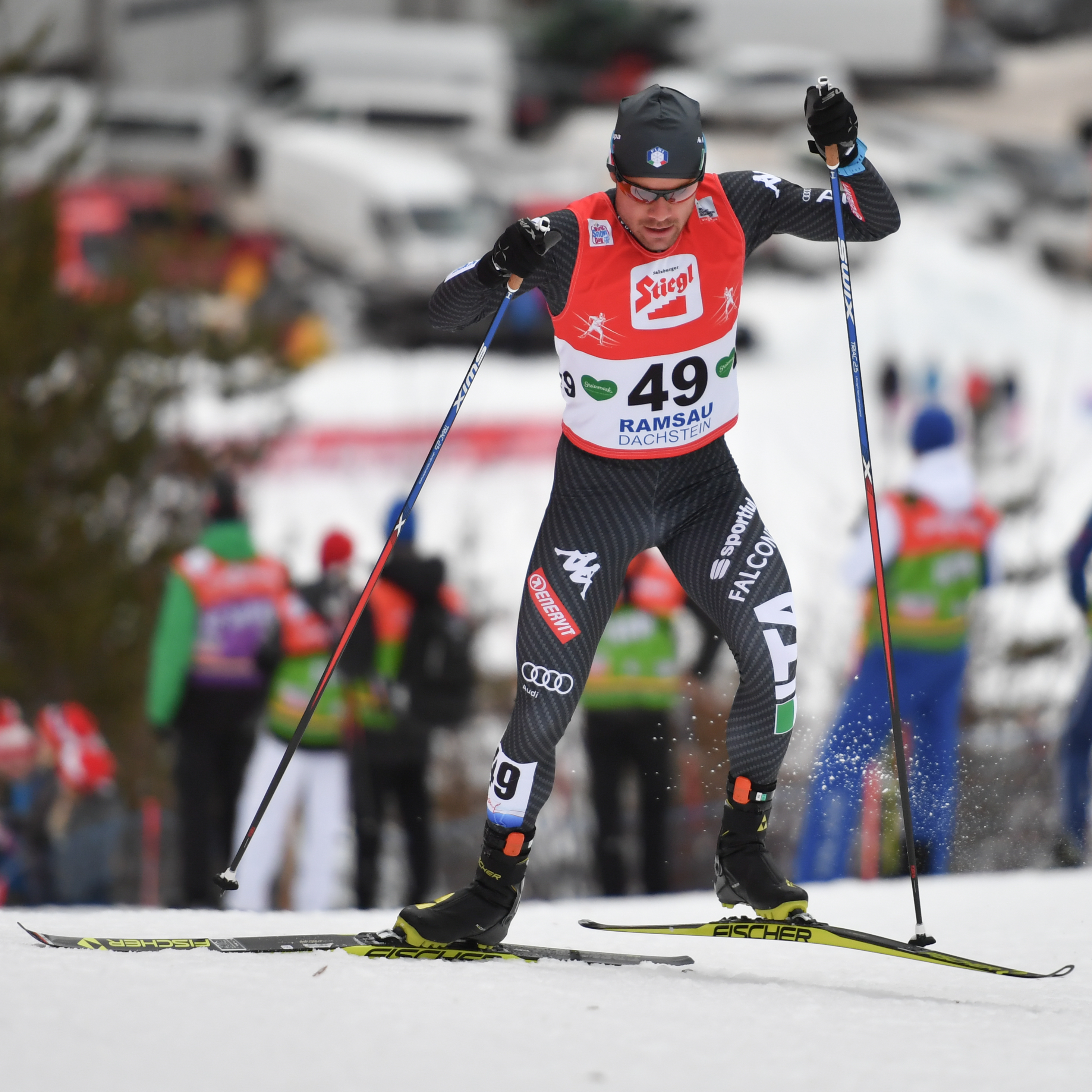 FIS World Cup Nordic Combined, Ramsau/Austria, 2016-12-16 to 2016-12-18.